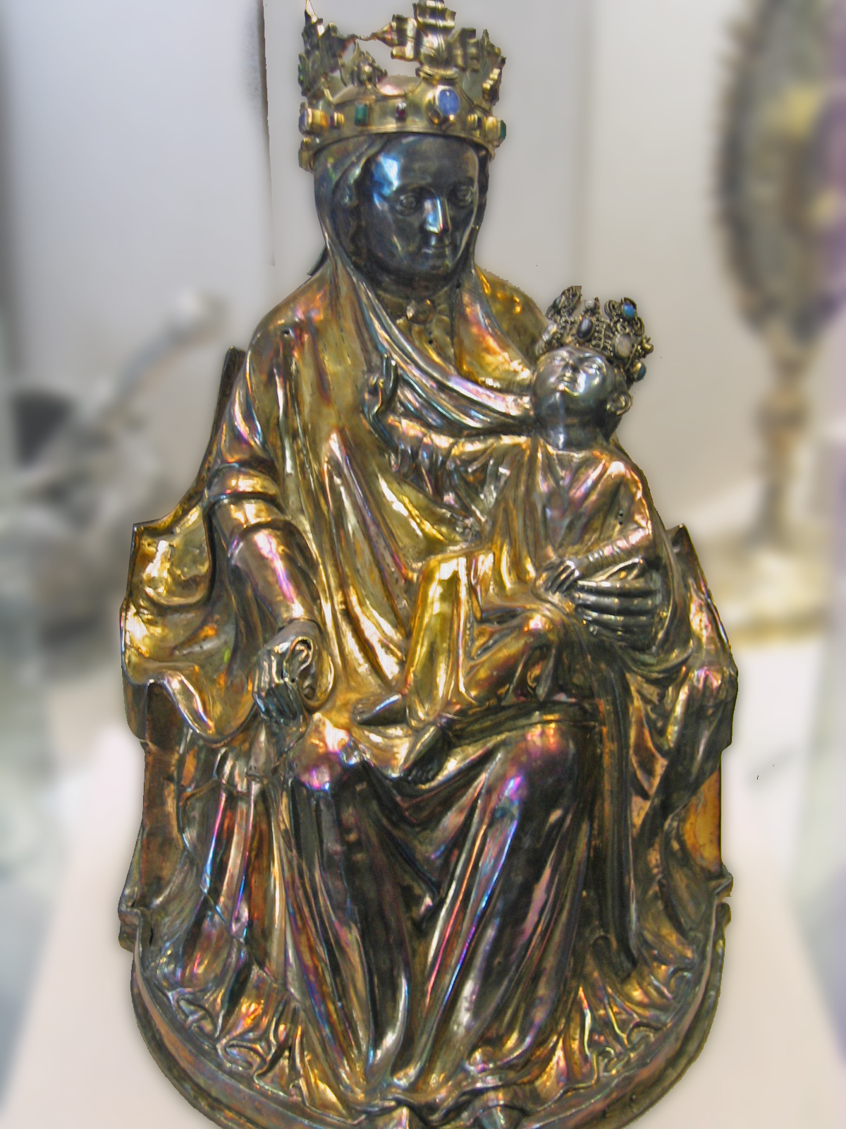 Cathedral in Minden, District of Minden-Lübbecke, North Rhine-Westphalia, Germany.